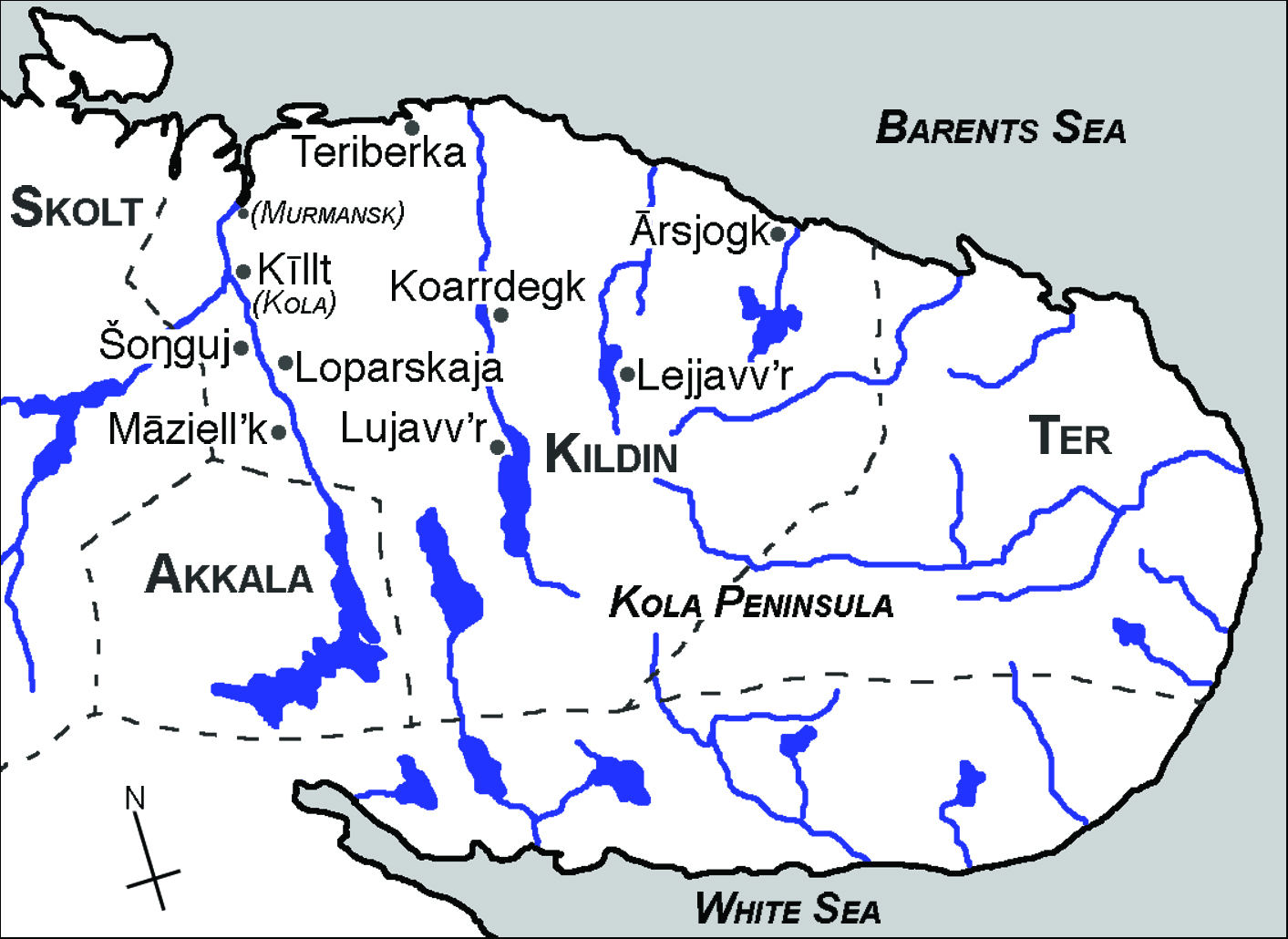 Kola Sámi languages and their traditional territories